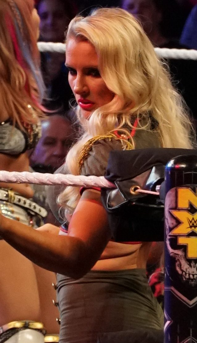 NOLA 2018 - WWE NXT Takeover - New Orleans - Kairi Sane Vs Lacey Evans Kairi Sane def. Lacey Evans Info on the match : Dark Match and for NXT TV Taping #292 ( Deux semaines a Nola pour la ville et pour WWE Wrestlemania XXXIV Two weeks Nola for the city and for WWE Wrestlemania XXXIV )